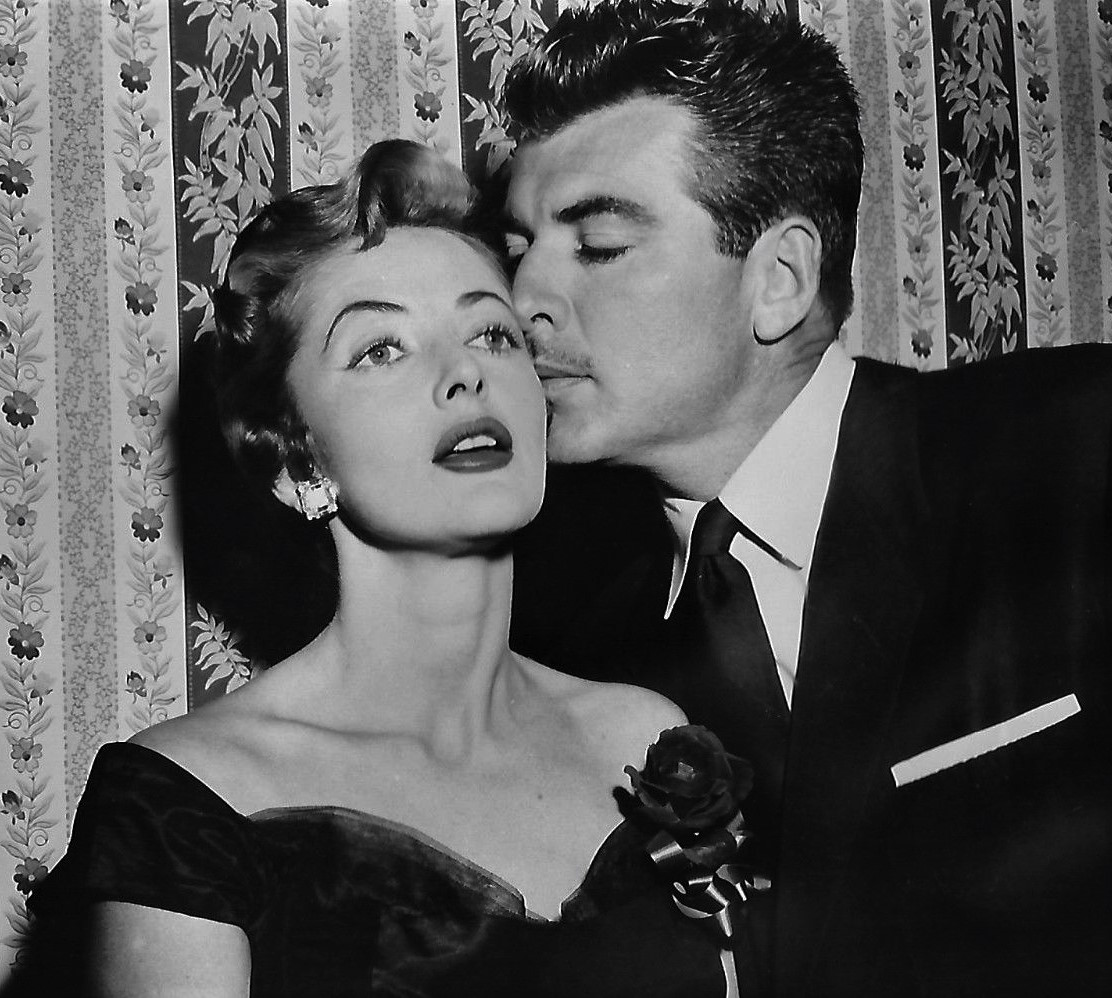 Martha Vickers and John Bromfield in The Big Bluff (1955) - publicity still (cropped)